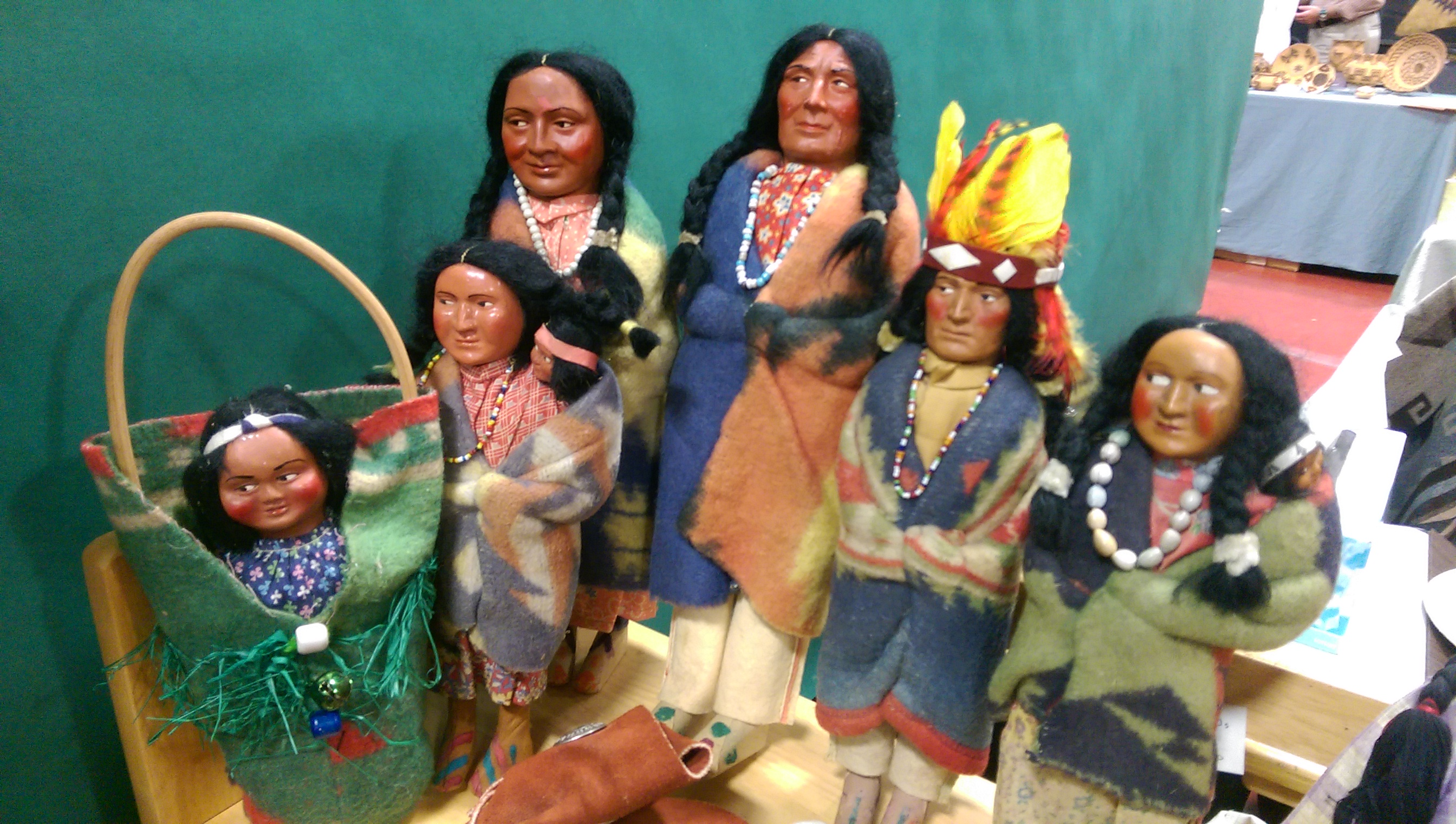 Skookum dolls on display at the 32nd Annual American Indian Art Show at the Marin Center in San Rafael, California. Photo by Jim Heaphy.